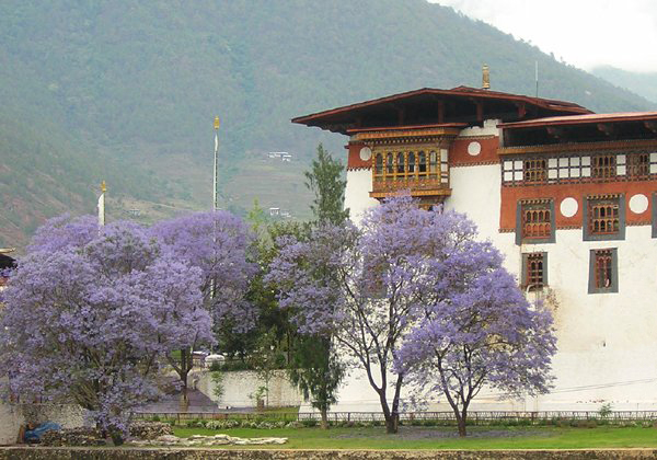 Dzong (fort) in Punakha (a place name) in central Bhutan.